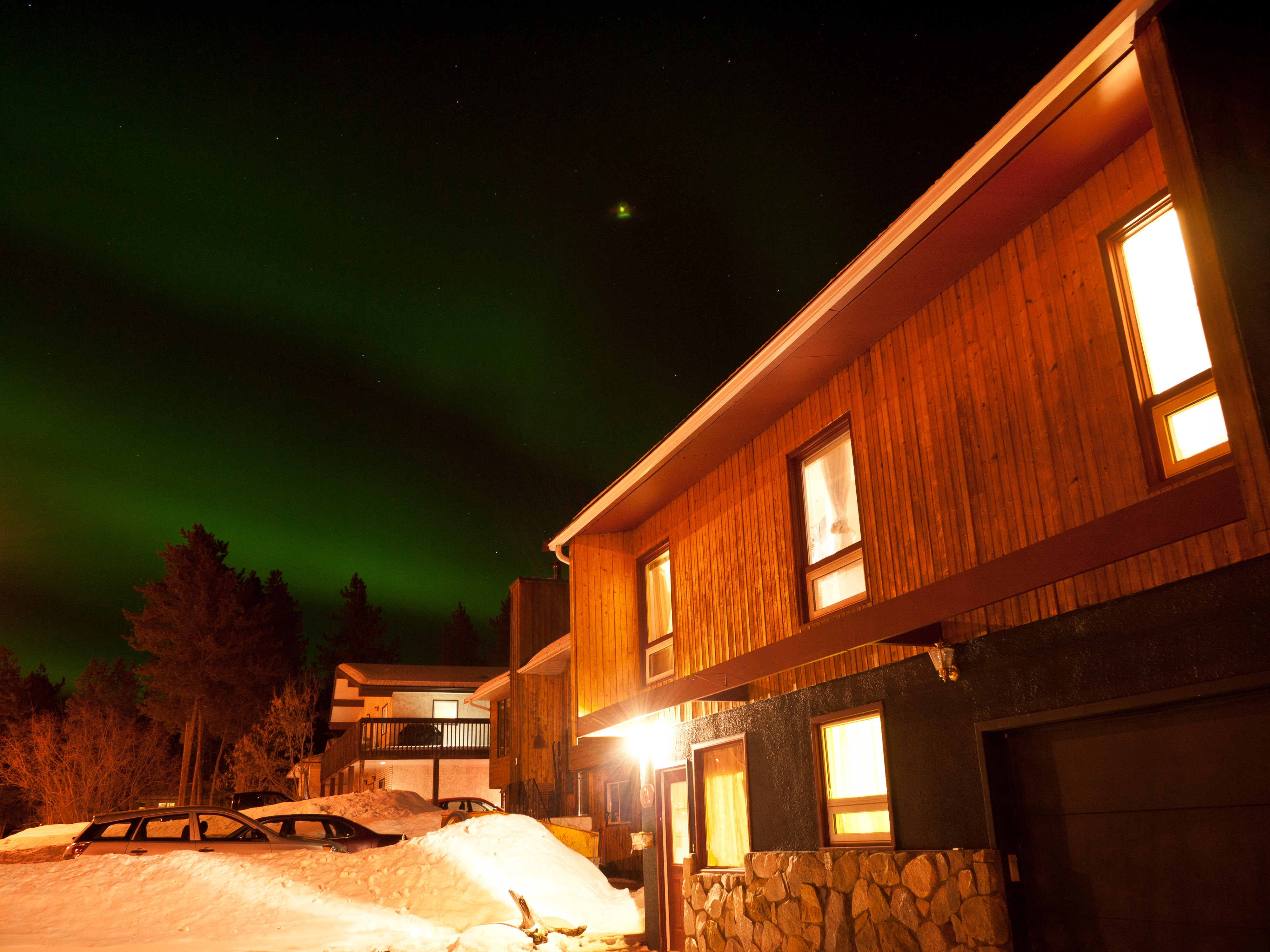 Rare to see them at home like this